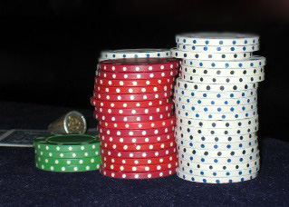 TOC Chips Logo Created by Danny Zumwalt Photo by Danny Zumwalt